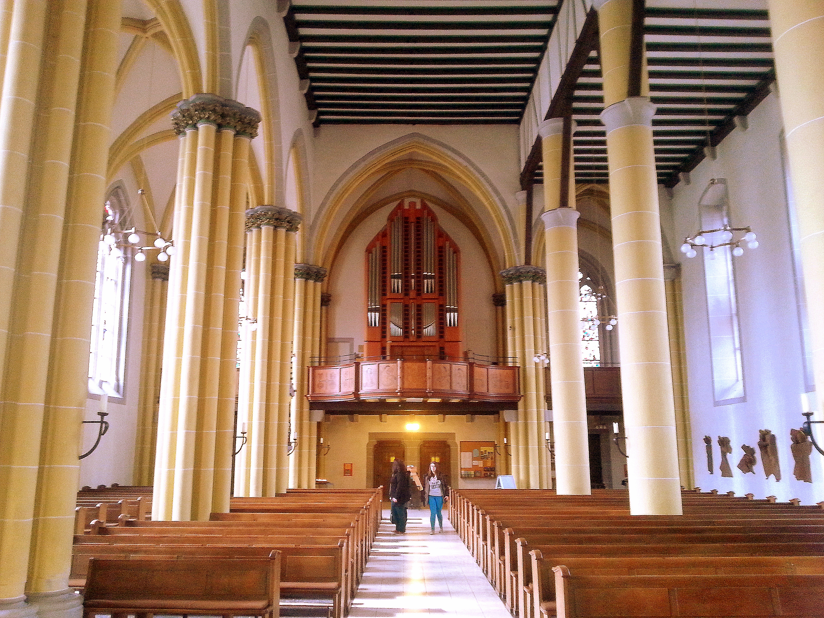 Interior of the roman catholic church in Saarburg, Rhineland-Palatinate, Germany